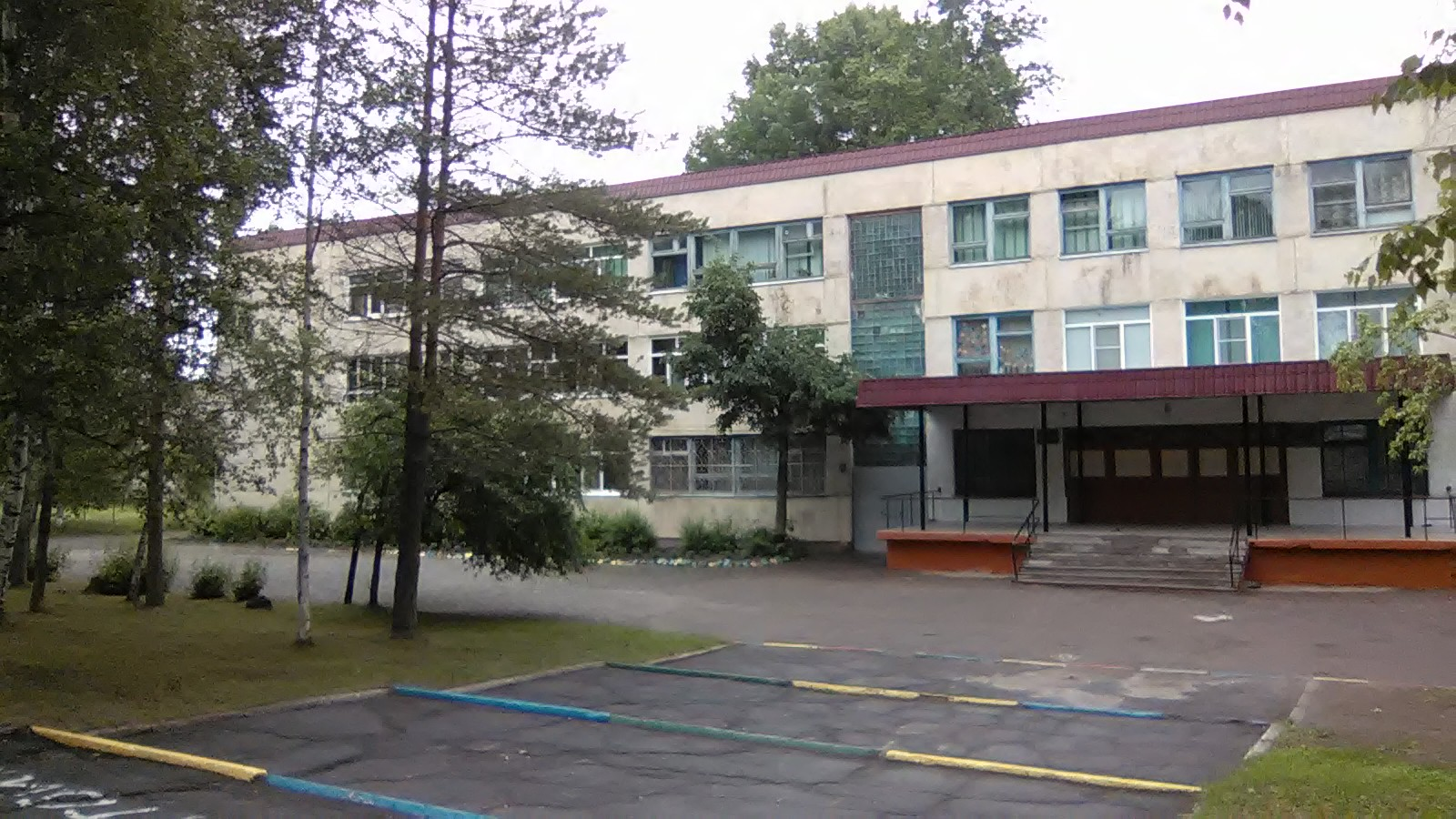 Школа